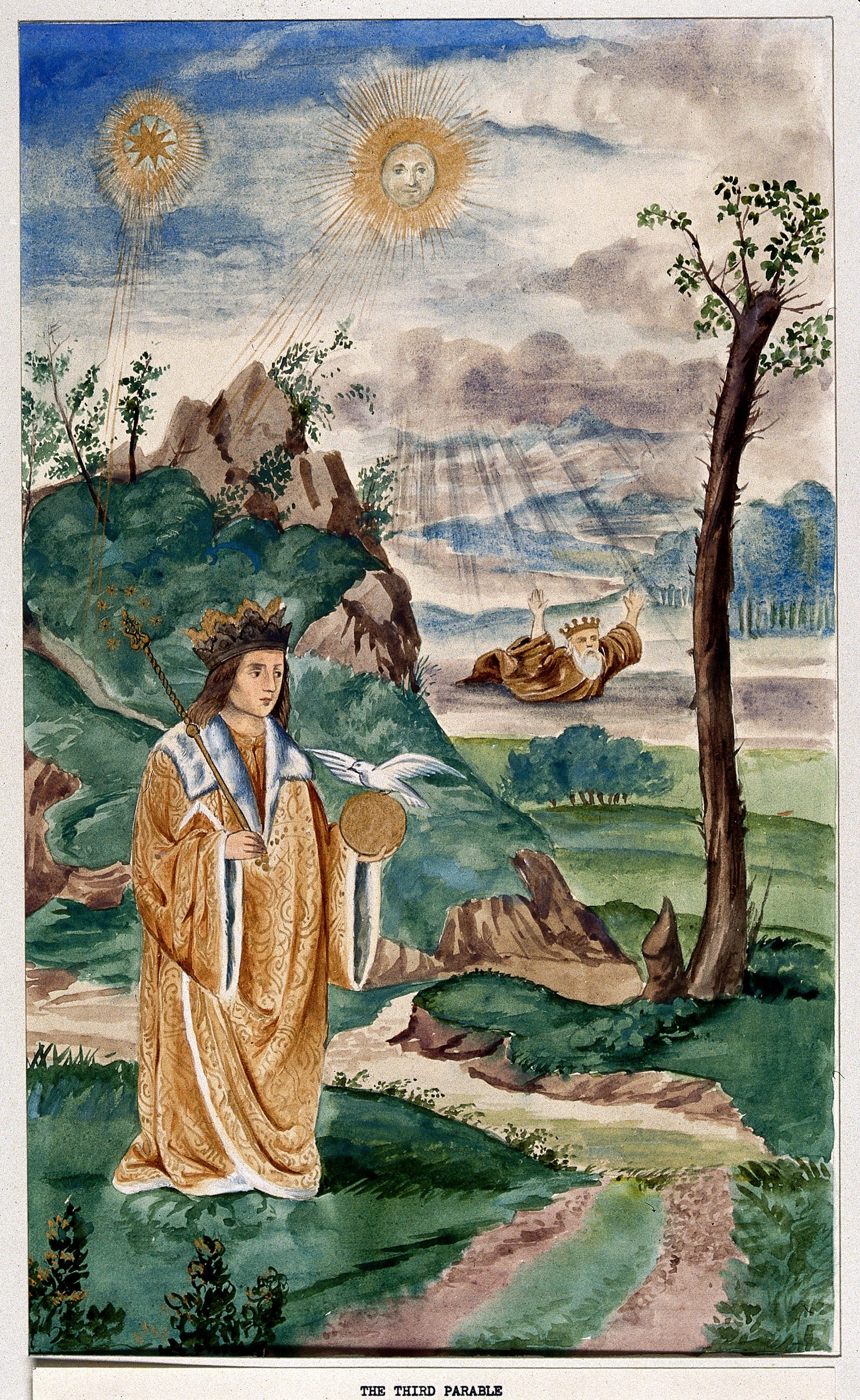 A prince, clad in gold, succeeds the King; representing a stage in the alchemical process; from Salomon Trismosin's 'Splendor solis'. Watercolour painting. Iconographic Collections Keywords: Salomon Trismosin